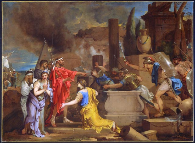 Ulysses Discovering Astyanax Hidden in Hector's Tomb